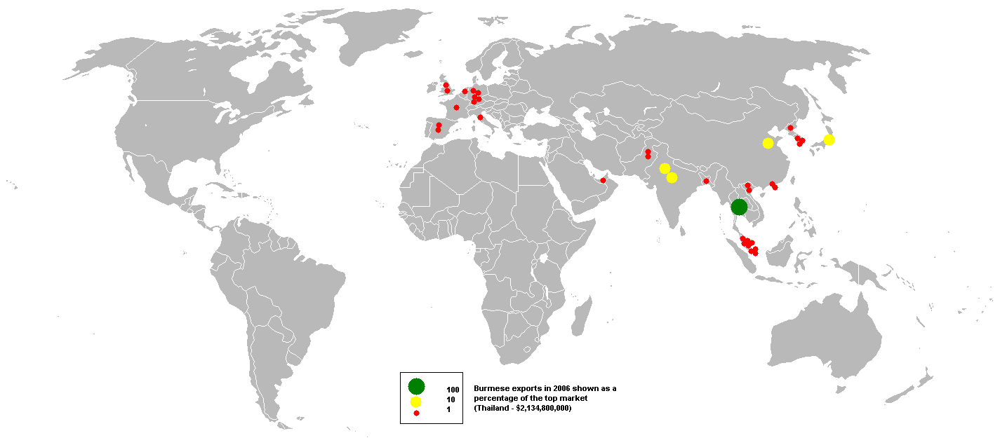 This bubble map shows the global distribution of Burmese exports in 2006 as a percentage of the top market (Thailand - $2,134,800,000). This map is consistent with incomplete set of data too as long as the top producer is known. It resolves the accessibility issues faced by colour-coded maps that may not be properly rendered in old computer screens. Data was extracted on 26th September 2007 from Based on :Image:BlankMap-World.png